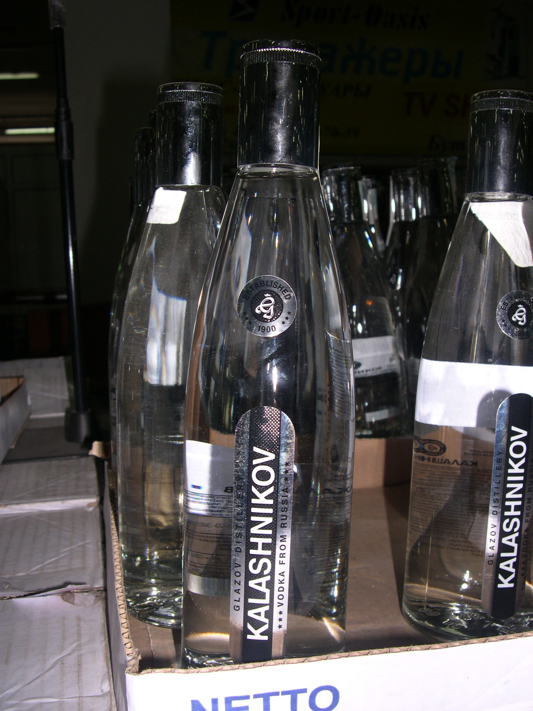 i basically just took this photo for this post